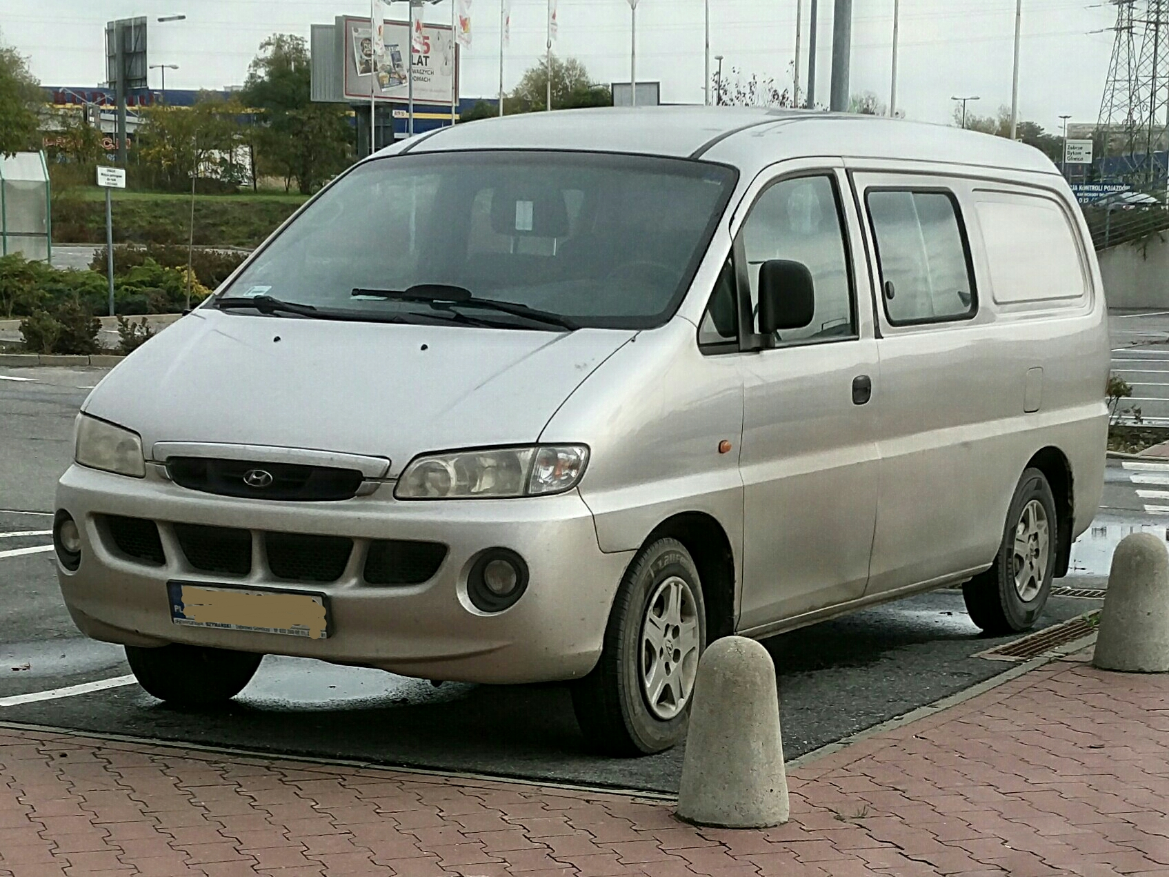 Hyundai H-1 (1-st generation)